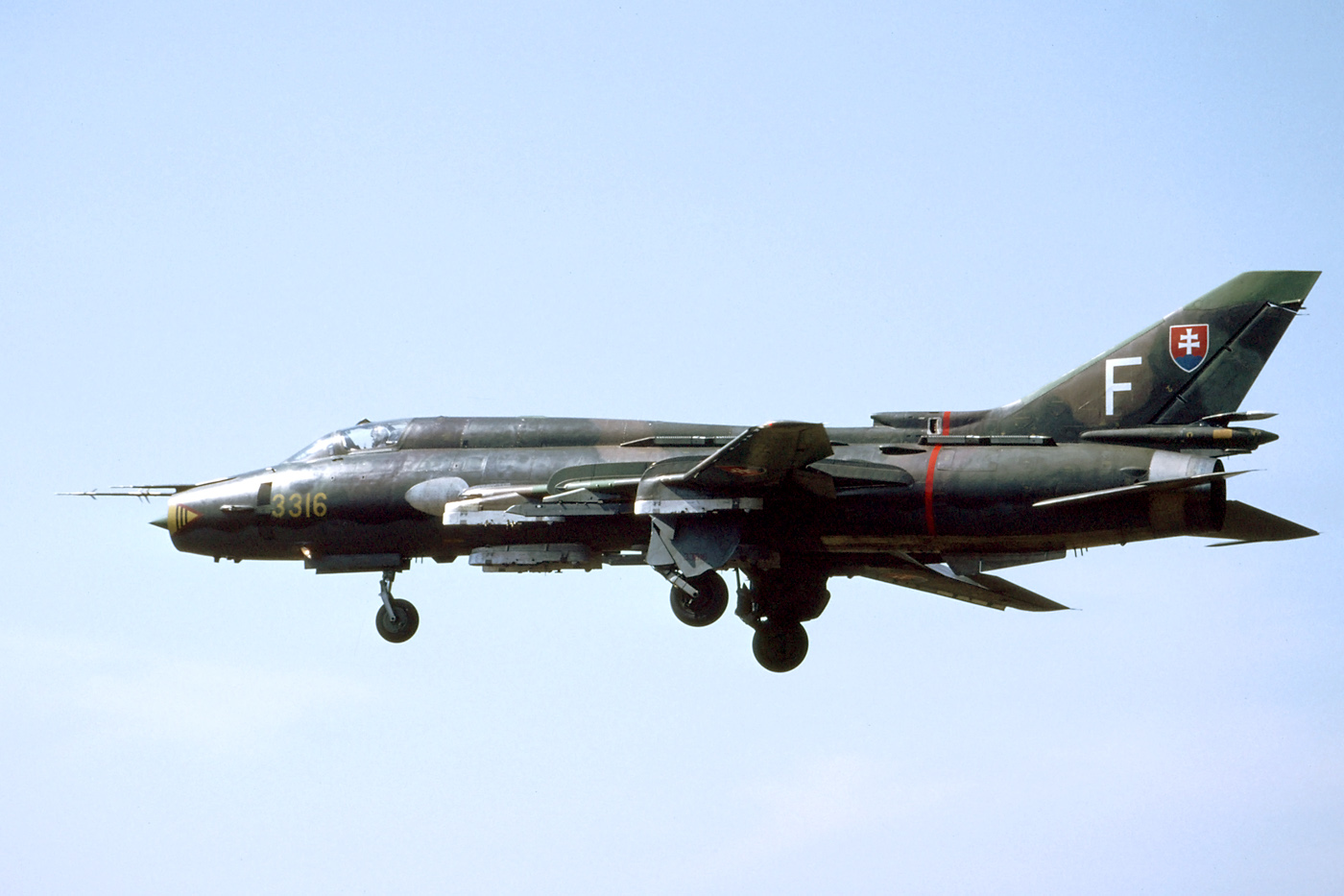 Malacky, 17 August 1994. Landing after taking part in a formation flight with at least 16 other aircraft: 4 Su-22s, 3 Su-25s, 4 MiG-21s, 4 MiG-29s, 1 L-29 and 1 Let410. Most Fitters were sold to the Angolan Air Force, but 3316 stayed in Slovakia and is now preserved at Malacky.